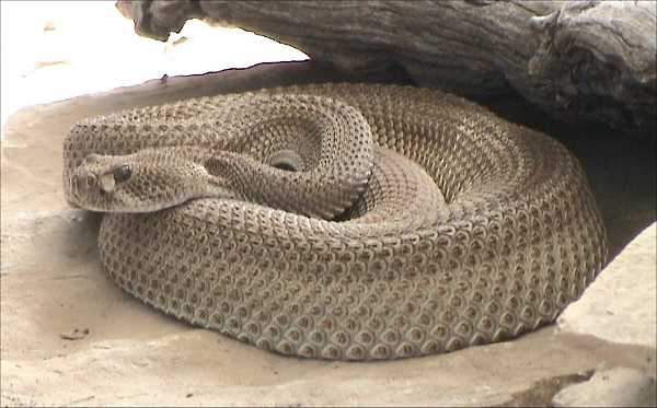 Patternless morph of the Western Diamondback Rattlesnake, Crotalus atrox. Animal courtesy of Designer Atrox